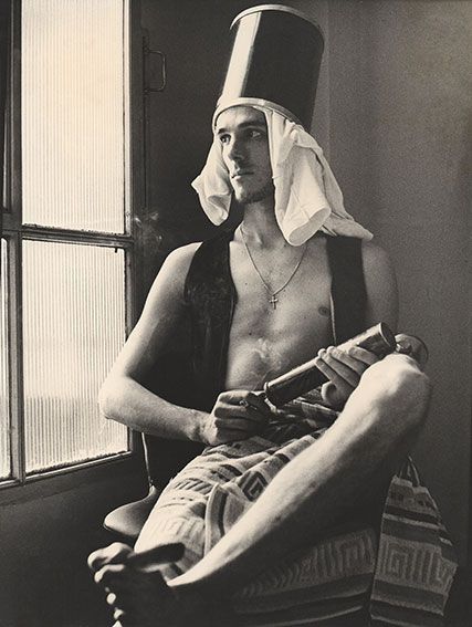 Argentine musician, Luis A. Spinetta, posing for the camera in Santa Fe city.